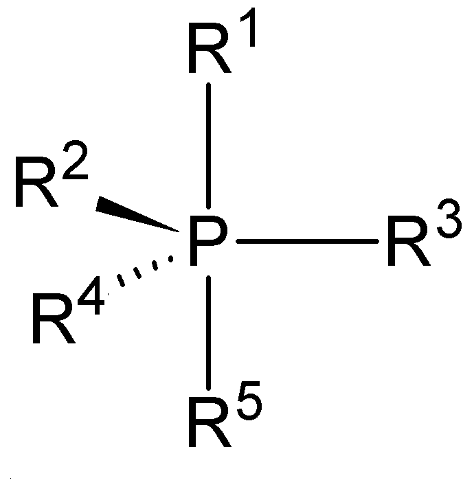 Comments High-resolution black/white .PNG made with ChemSketch and Photoshop — see WikiProject Chemistry - structure drawing for detailed instructions. Please drop me a note if you need the source file. Category:Chemical structures (Original text: Chemical structure of Phosphorane)